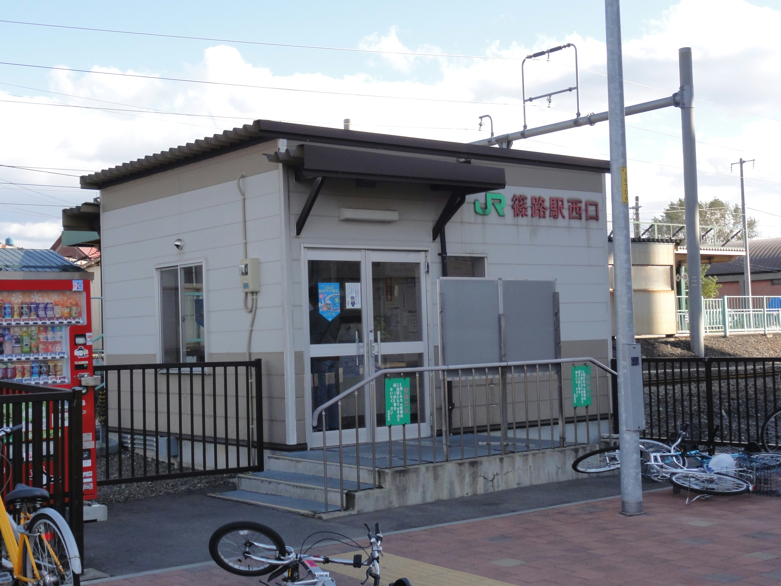 West entrance of Shinoro Station on the Sasshō Line (Kita-ku, Sapporo, Hokkaido)